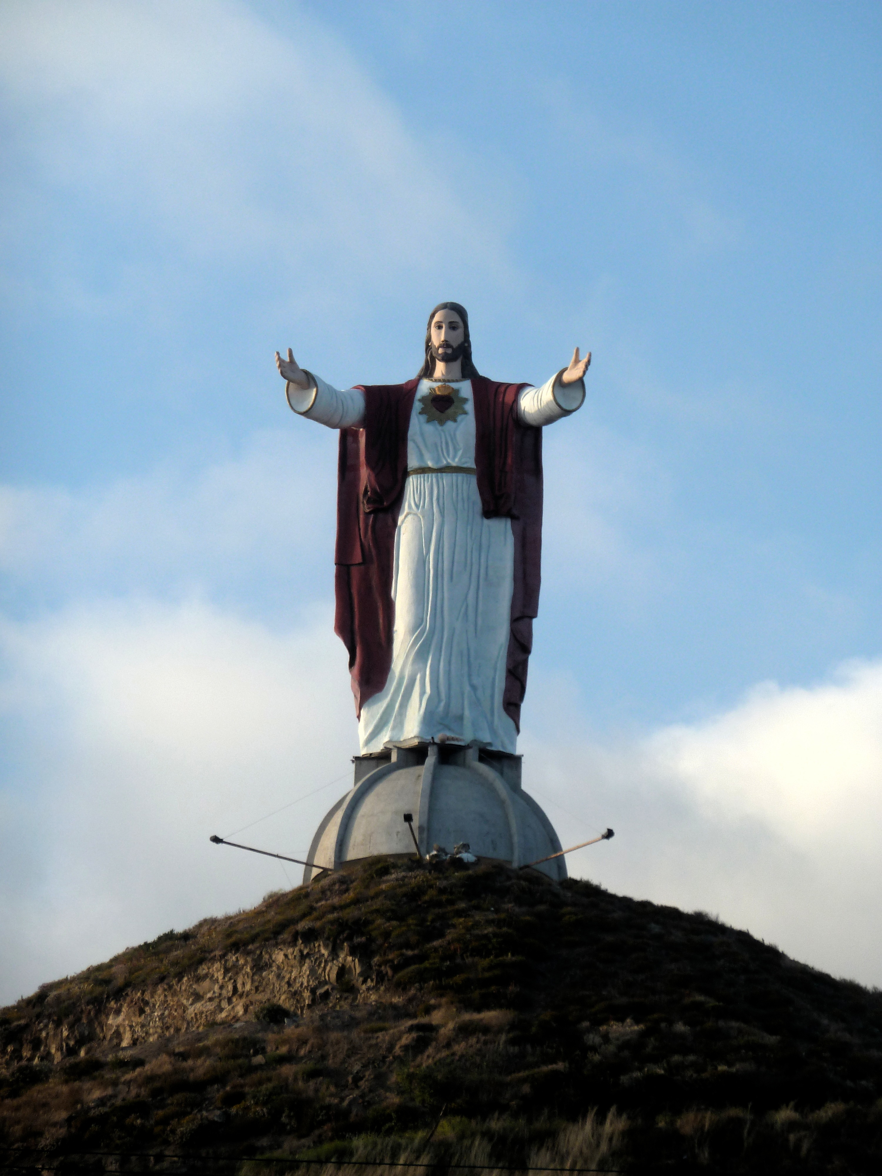 Christ of the Sacred Heart statue in Rosarito Beach, Baja California